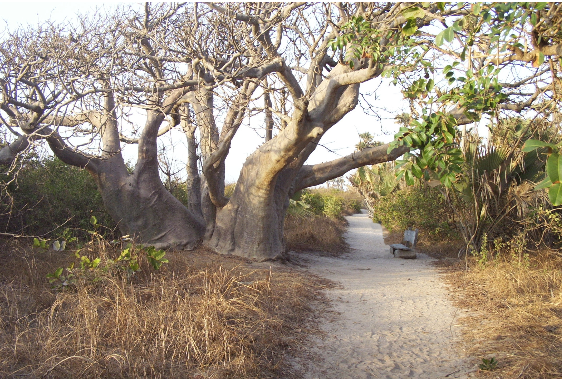 Adansonia digitata